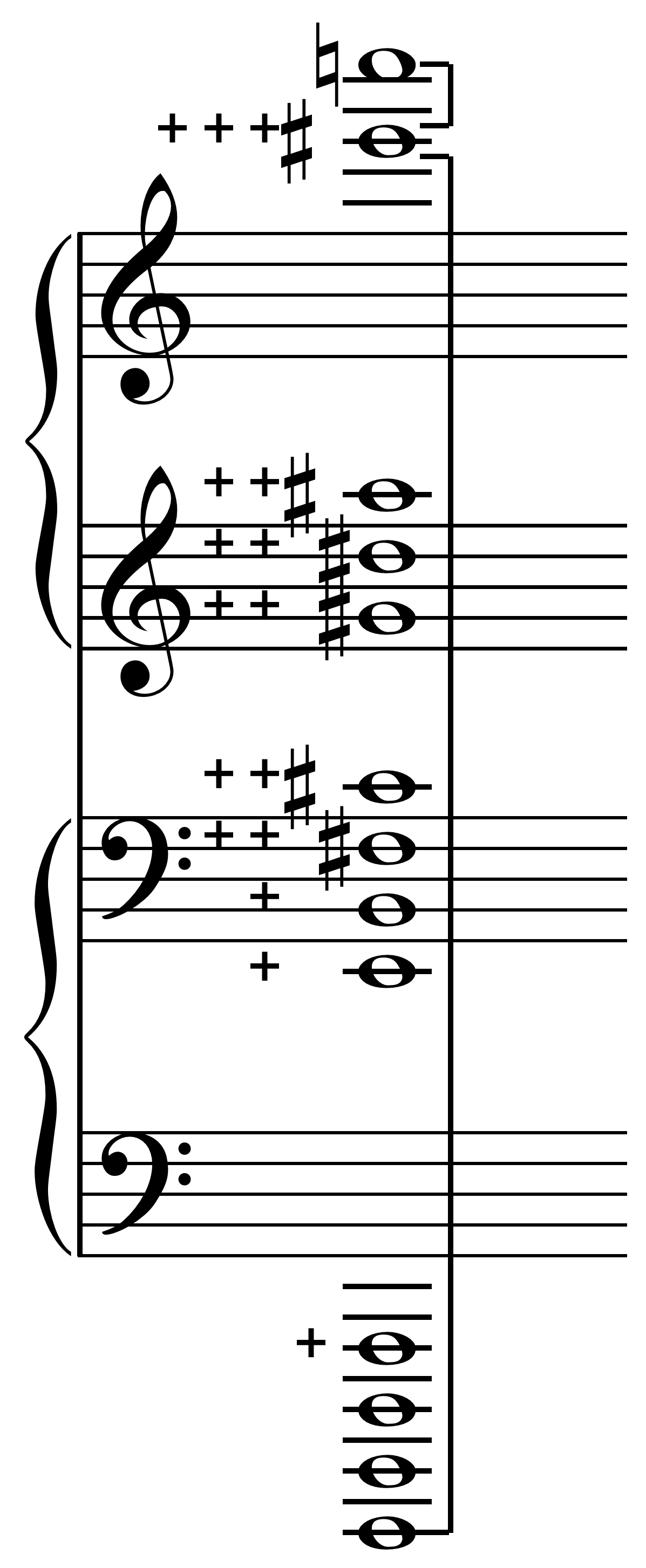 Pythagorean wolf fifth. C, G, D, A+, E+, B+, F♯+, C♯+, G♯+, D♯+, A♯++, E♯++. C to E♯++, 177147:131072, 521.51 cents, Pythagorean augmented third.